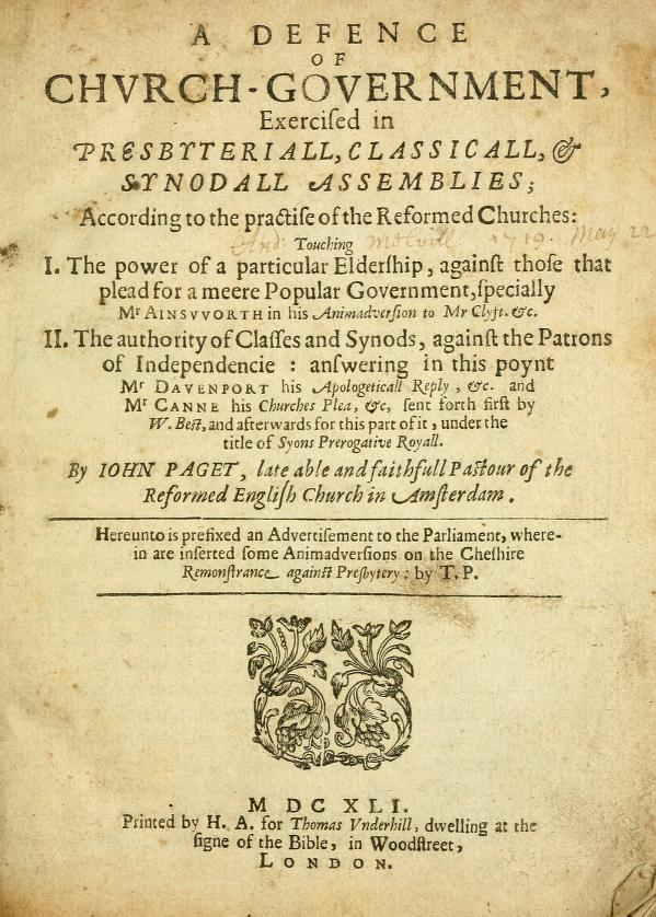 Title page of "A defence of church-government, exercised in presbyteriall, classicall, & synodall assemblies, according to the practise of the reformed churches," an important Presbyterian polemic published in 1641 and presented to the Long Parliament in that year.